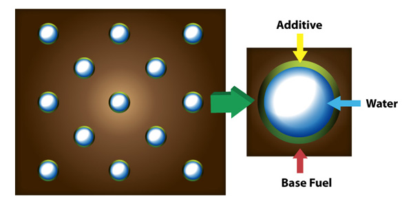 Diagram illustrating an oil-phase emulsion